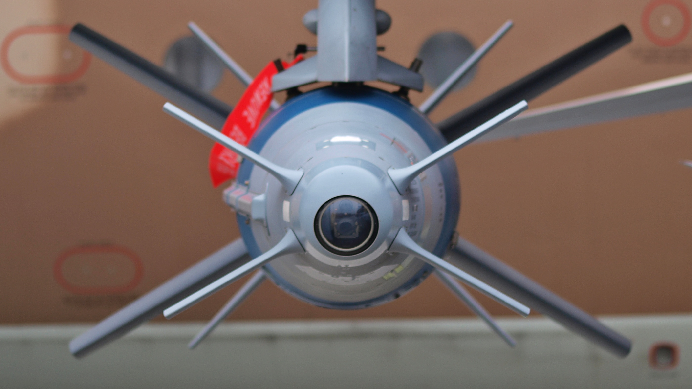 An Israeli Rafael Spice guided bomb under the wing of an Israeli Air Force F-16I Soufa Fighter. Picture taken at Kecskeméti Repülőnap 2010.